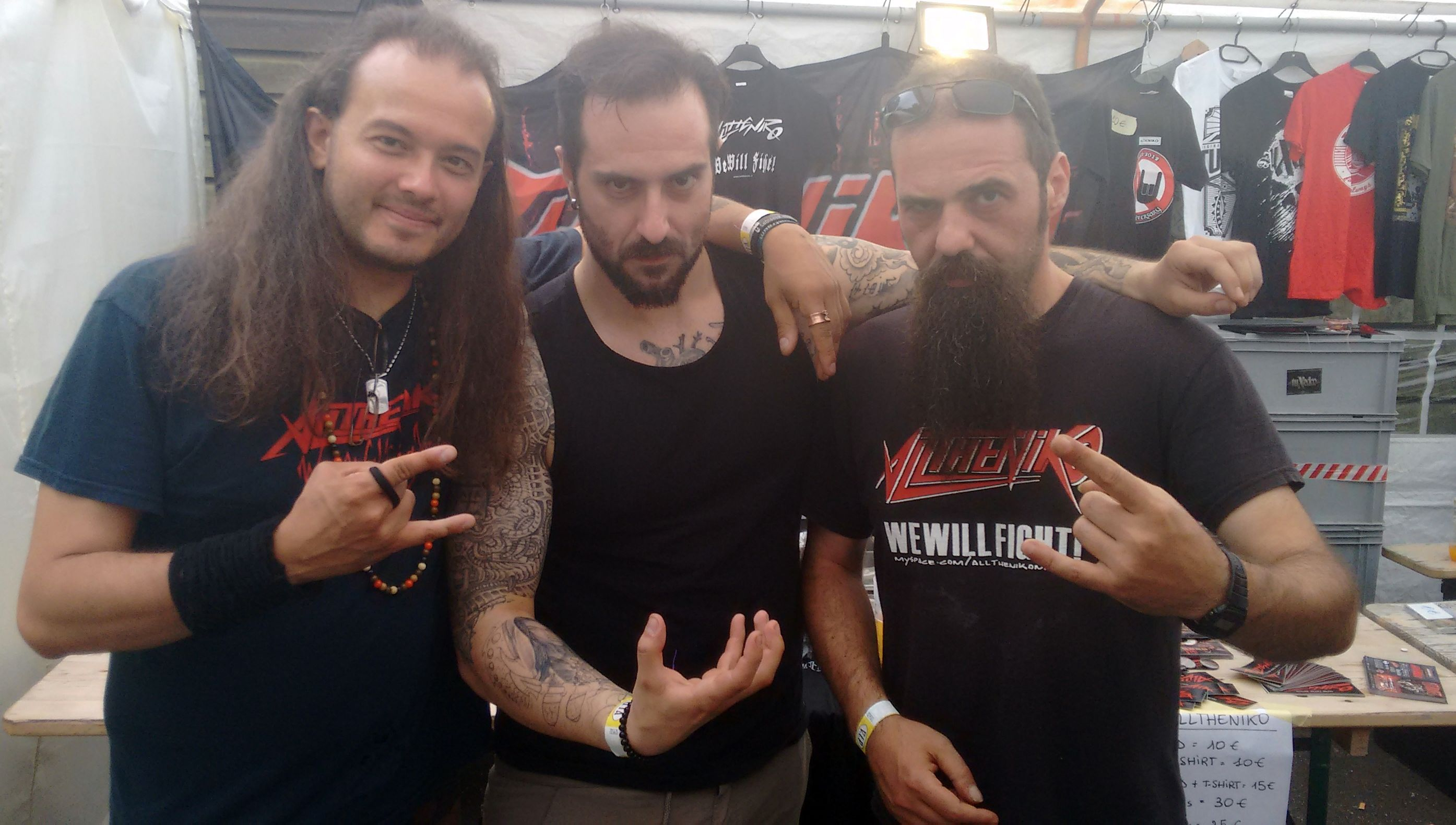 Italian Heavy-Metal-Band Alltheniko at Hard 'N' Heavy's Summernight Open Air 2018 (Mechernich, North Rhine-Westphalia, Germany) – the Band standing at the Merch Booth